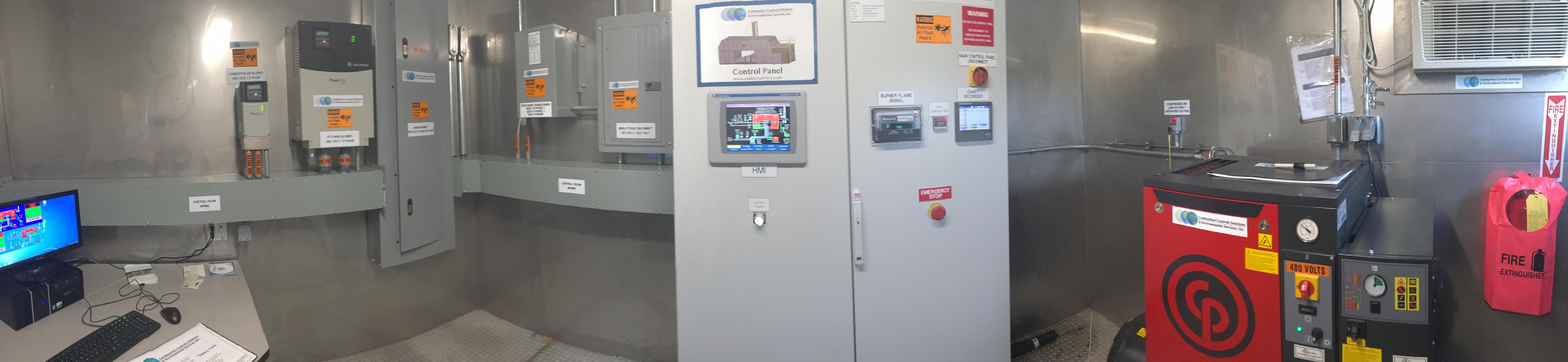 Simplified control center